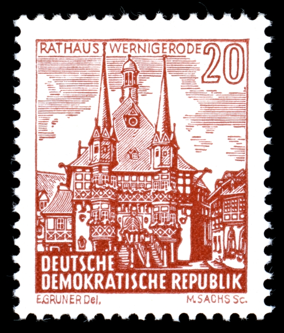 Ausgabepreis: Pfennig First Day of Issue / Erstausgabetag: Auflage: Entwurf: Druckverfahren: Michel-Katalog-Nr: Ländercode-MiNr: Licensing This file is most likely NOT in the public domain. It has been marked for review, and will be deleted in due course if the review does not find it to be in the public domain. This file was previously considered to be in the public domain as a German stamp; it is possible that it is in the public domain for other reasons, in which case a new rationale will be applied as part of the review process. See below for the previous rationale. Previous public domain rationale, no longer applicable This stamp is in the public domain in Germany because it was released by the postal administration of the German Democratic Republic or the Soviet occupation zone (Deutschen Post der DDR) whose legal successor is the Federal Republic of Germany. Thus it is an official work according to German copyright law (§ 5 Abs. 1 UrhG).